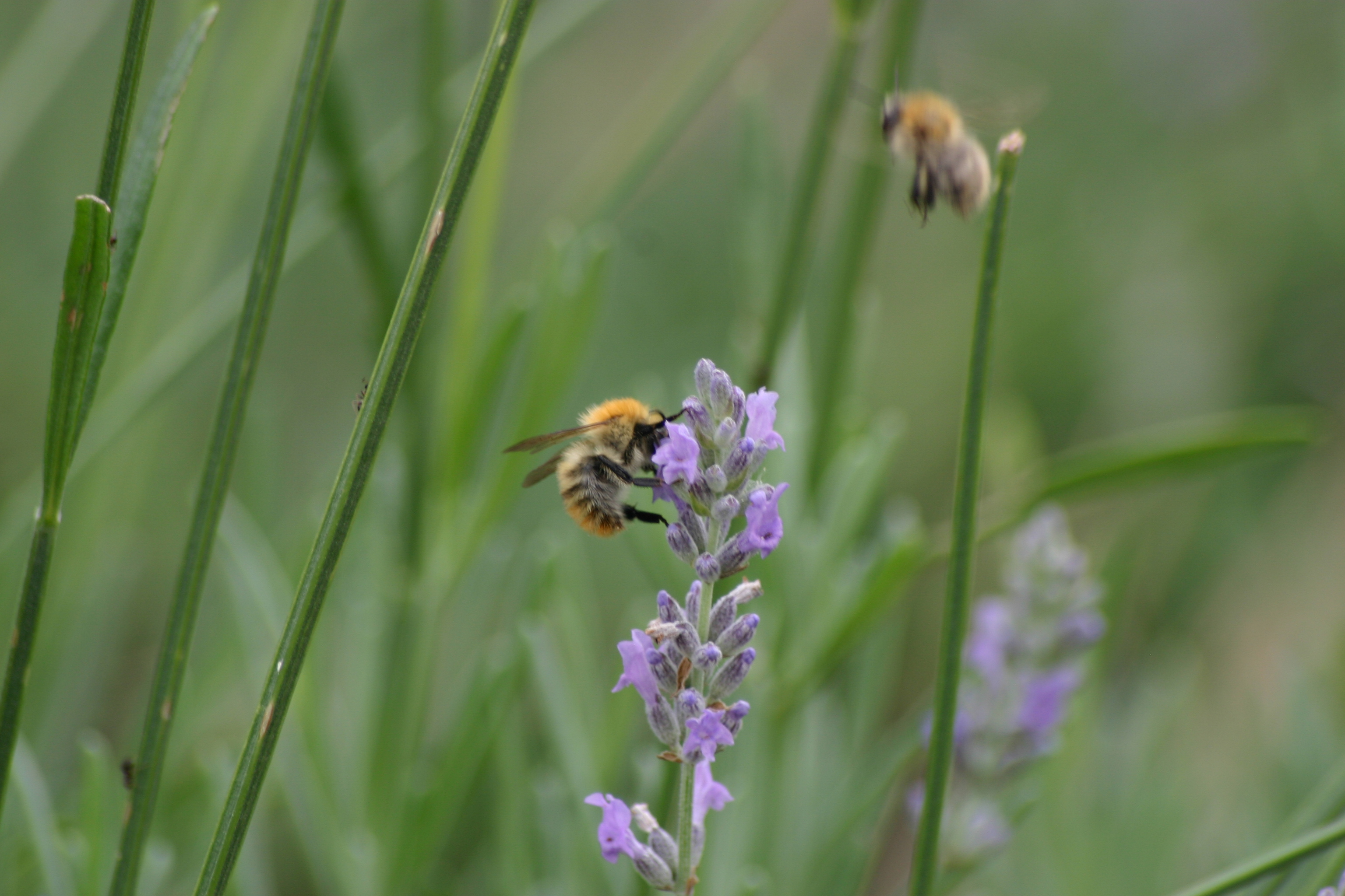 Two bees gathering pollen off a purple flower